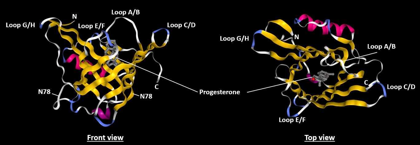 Structure of human ApoD in complex with progesterone (adapted from Eichinger et al., 2007). Left: front view showing the 8 anti-parallel -strands (yellow) structure forming the hydrophobic cavity typical of the lipocalins. Loops A/B, C/D, E/F and G/H link the -strands at the open end of the protein. Other loops are present at the opposite end of the protein (white). There are 2 α-helix (purple) located close to the cavity, one of which is able to close the cavity. The two glycosylated residues (N45 and N78) are shown. The 2 disulfide bridges are not visible. Right: top view of the cavity showing the progesterone ligand (grey).